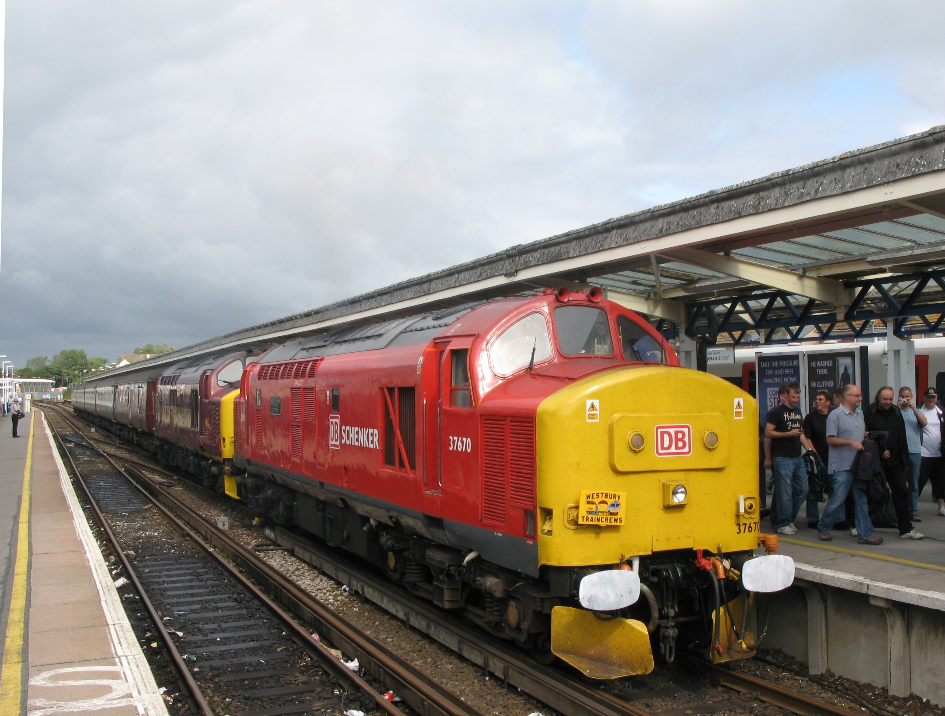 37670 St Blazey T&RS Depot and 37401 arrive at Weymouth, Dorset, England with a summer Saturday service from Bristol Temple Meads